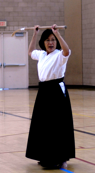 Taken during the 2007 Southern California Naginata Federation Annual Seminar.